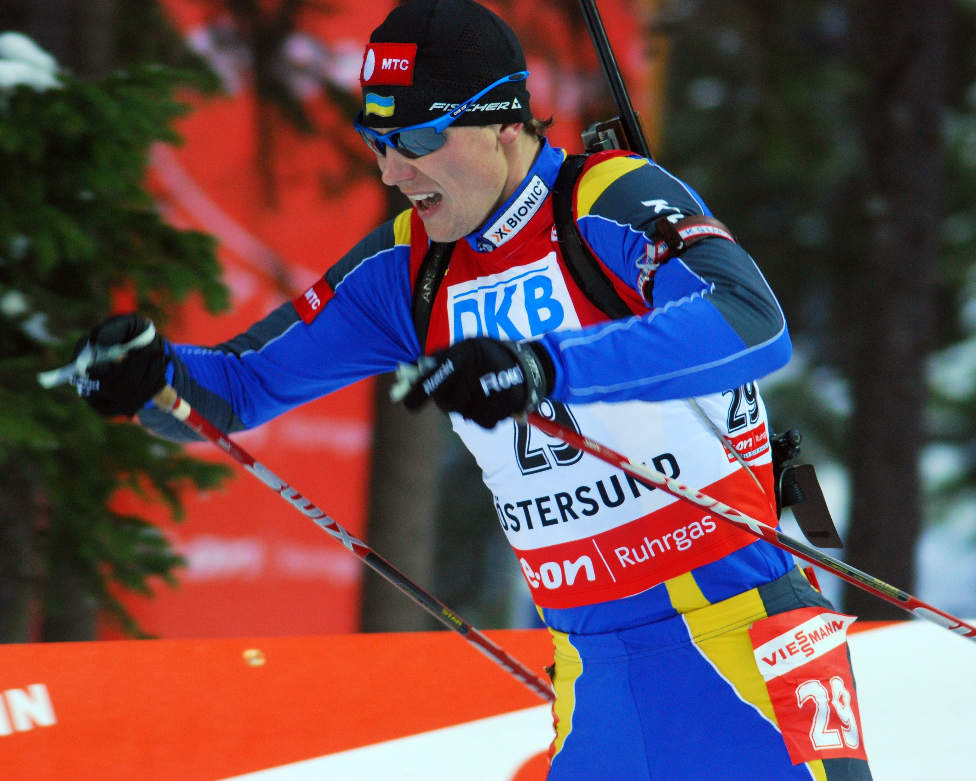 Ukrainian biathlete Andriy Deryzemlya during the World Championships in Östersund 2008.